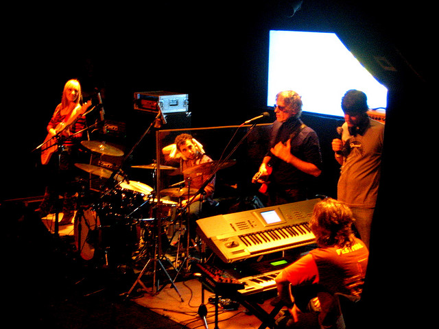 Luis Alberto Spinetta and his band at La Trastienda, Buenos Aires. Bajist: Nerina Nicotra, drums: Sergio Vendrinelli, keyboards: Claudio Cardone.